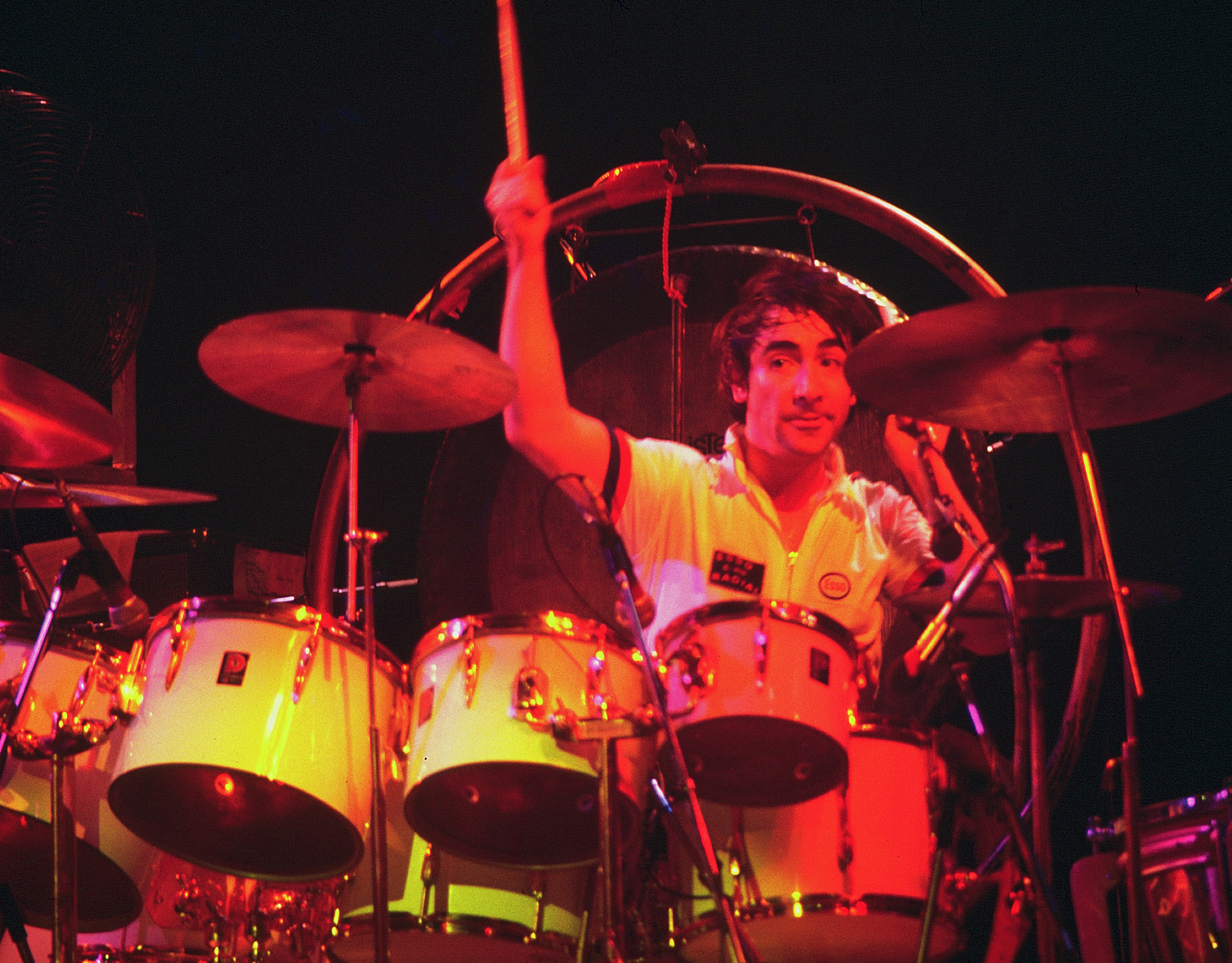 Keith Moon, English rock drummer for The Who